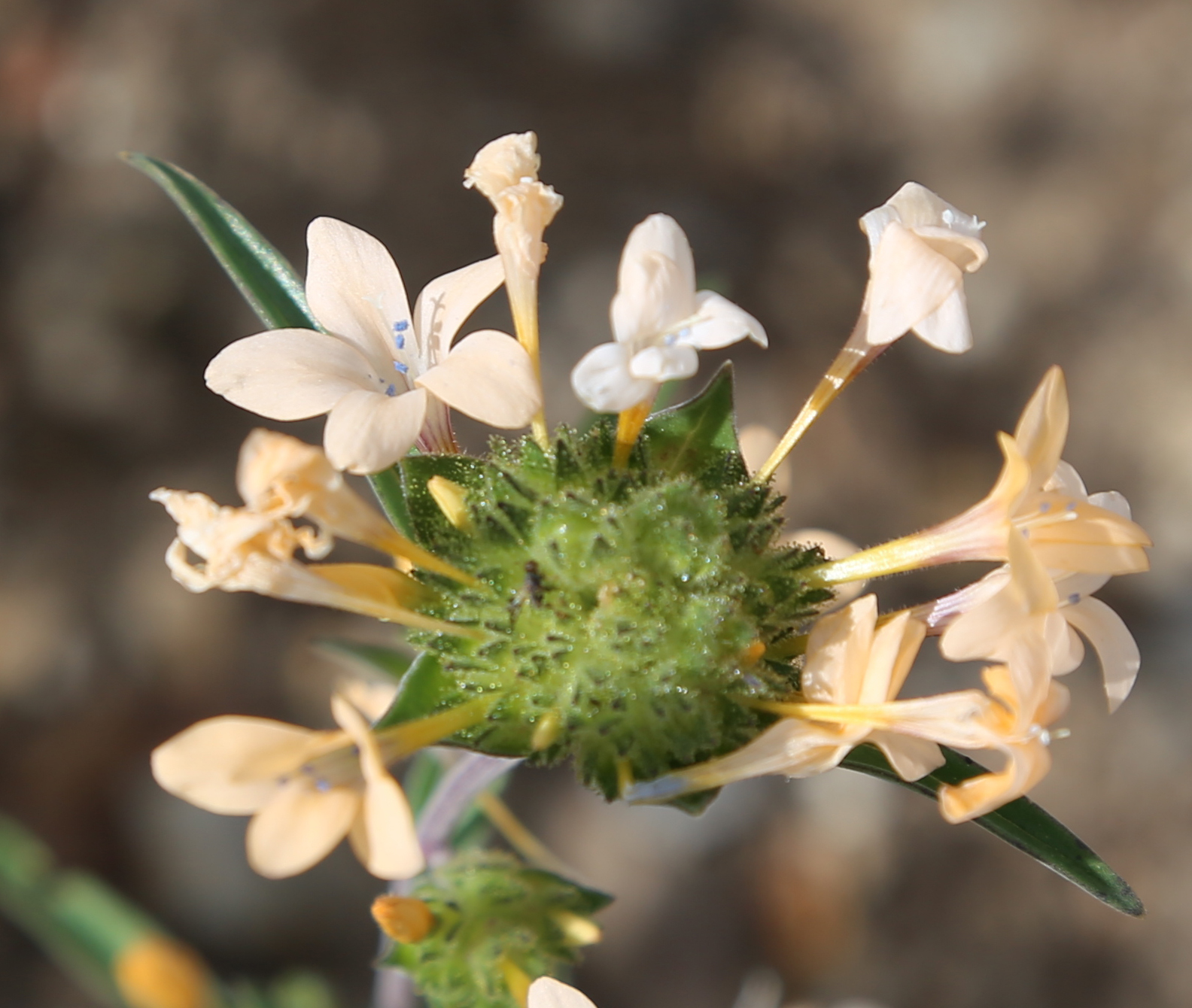 Grand collomia (Collomia grandiflora), closeup of a trumpet-shaped, 5-petaled, pale-apricot flower. The shadow of the triply-branched style can be seen on one petal, and 4 of the 5 blue anthers (the 5th stamen is down inside the tube). At 9,400 ft (2,900 m) above Minaret Vista in Inyo National Forest, Sierra Nevada, California.